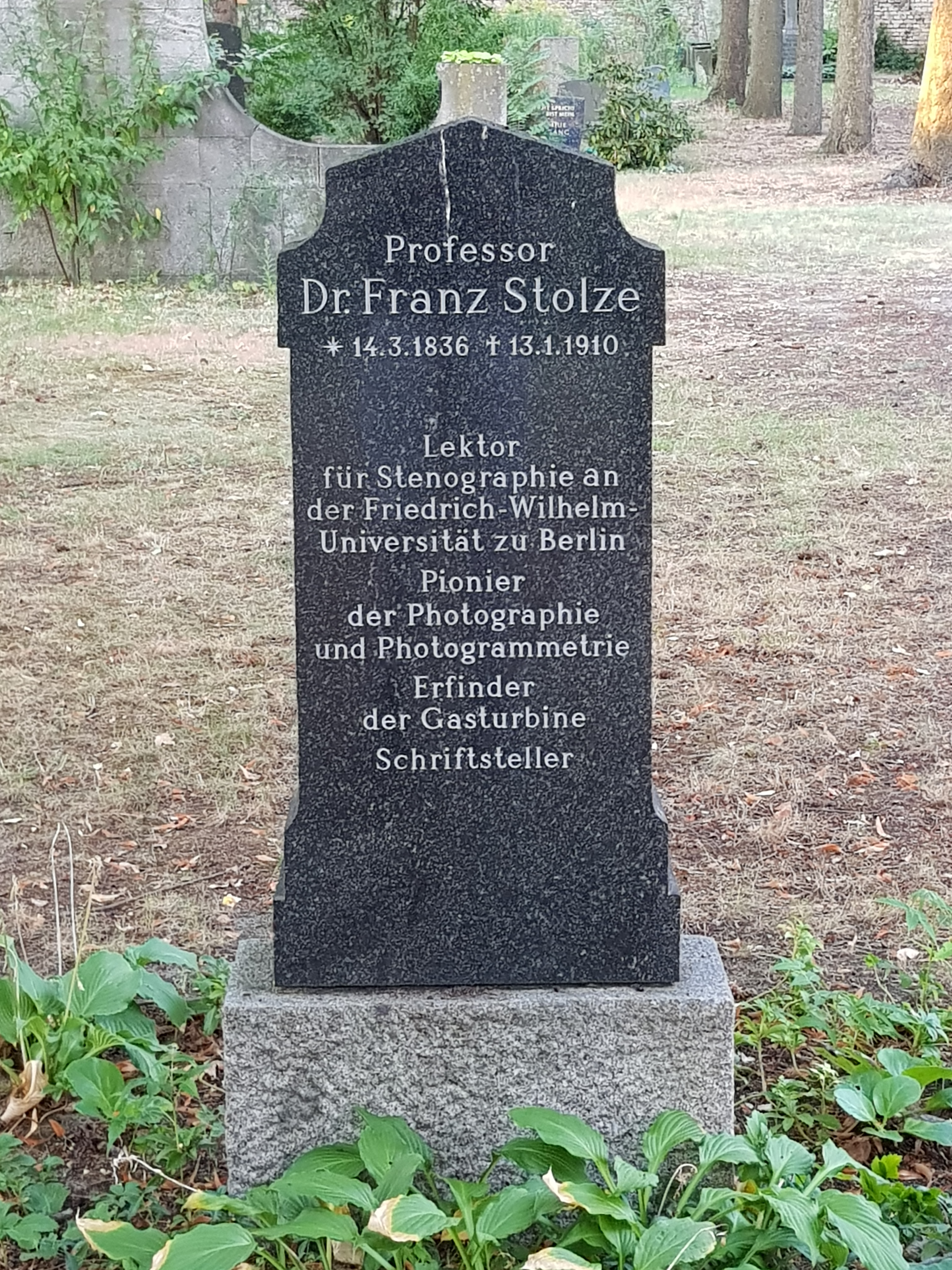 Grave of Franz Stolze on Domfriedhof I, Mitte, Berlin